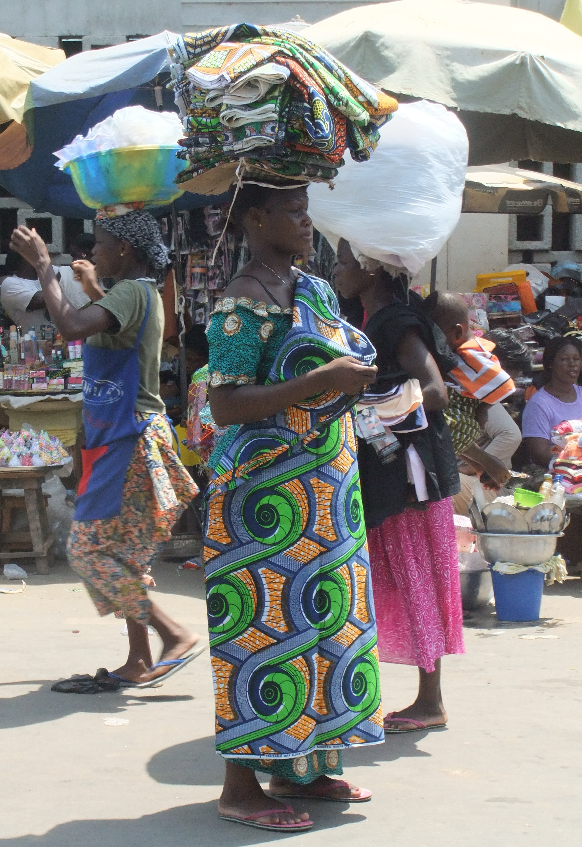 Lome, Togo This is an image of "African people at work" from Togo